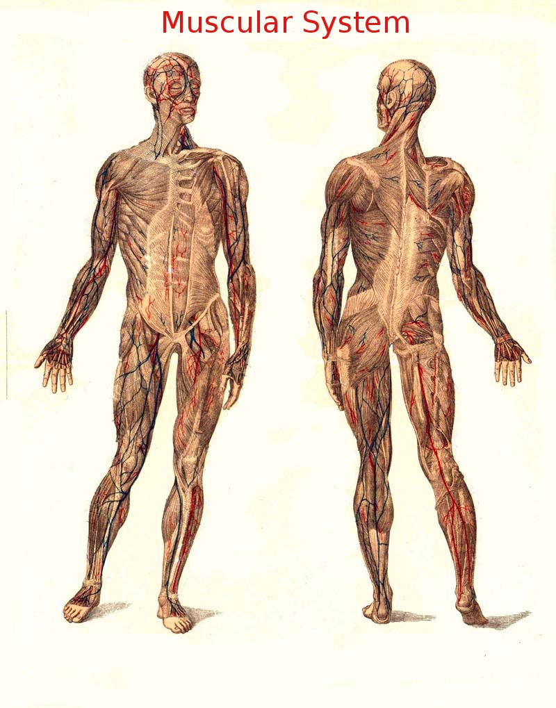 Derivative of original painting by Meyers.